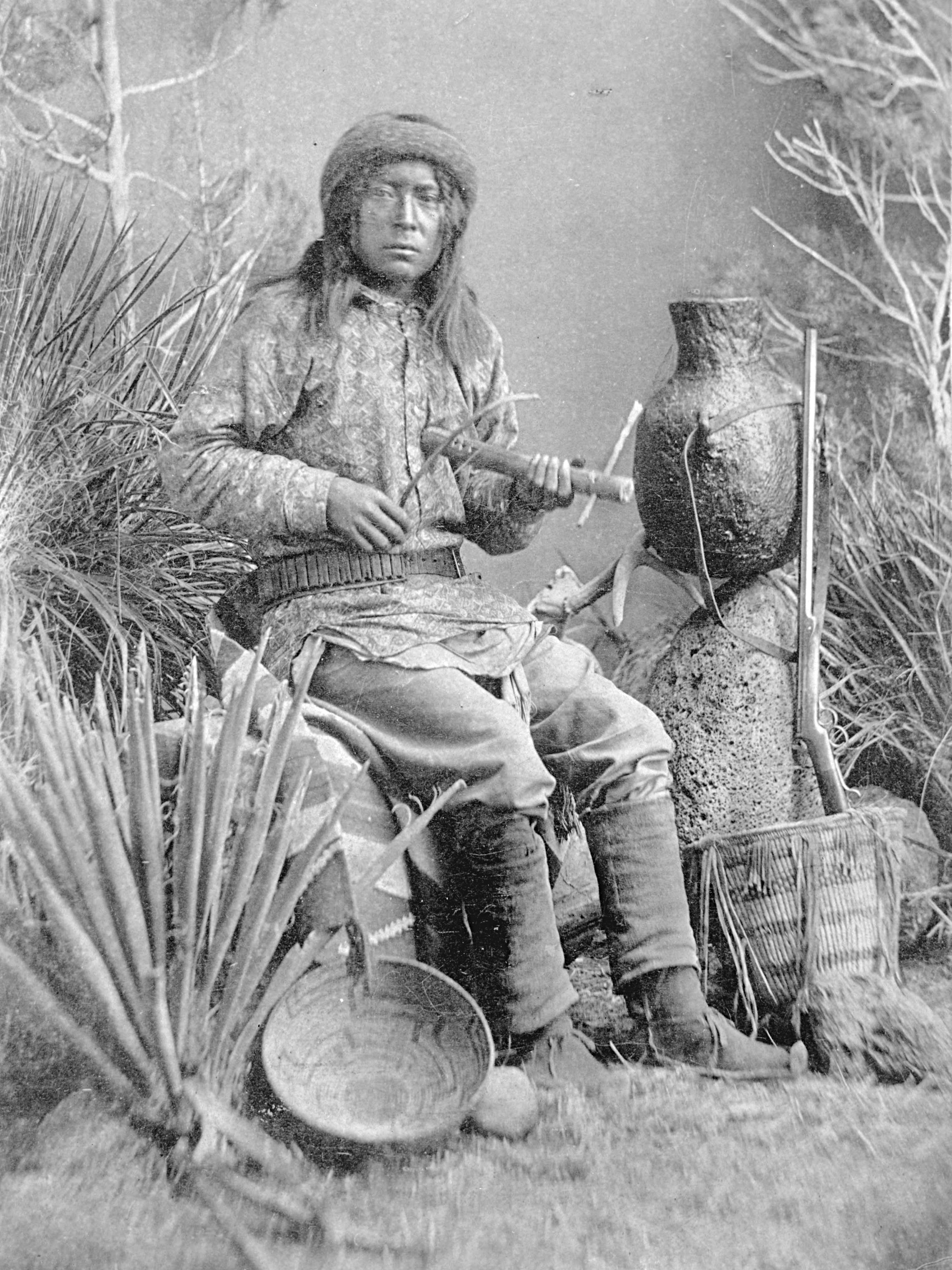 Chasi, Bonito's Son, an Apache musician playing the "Apache fiddle"